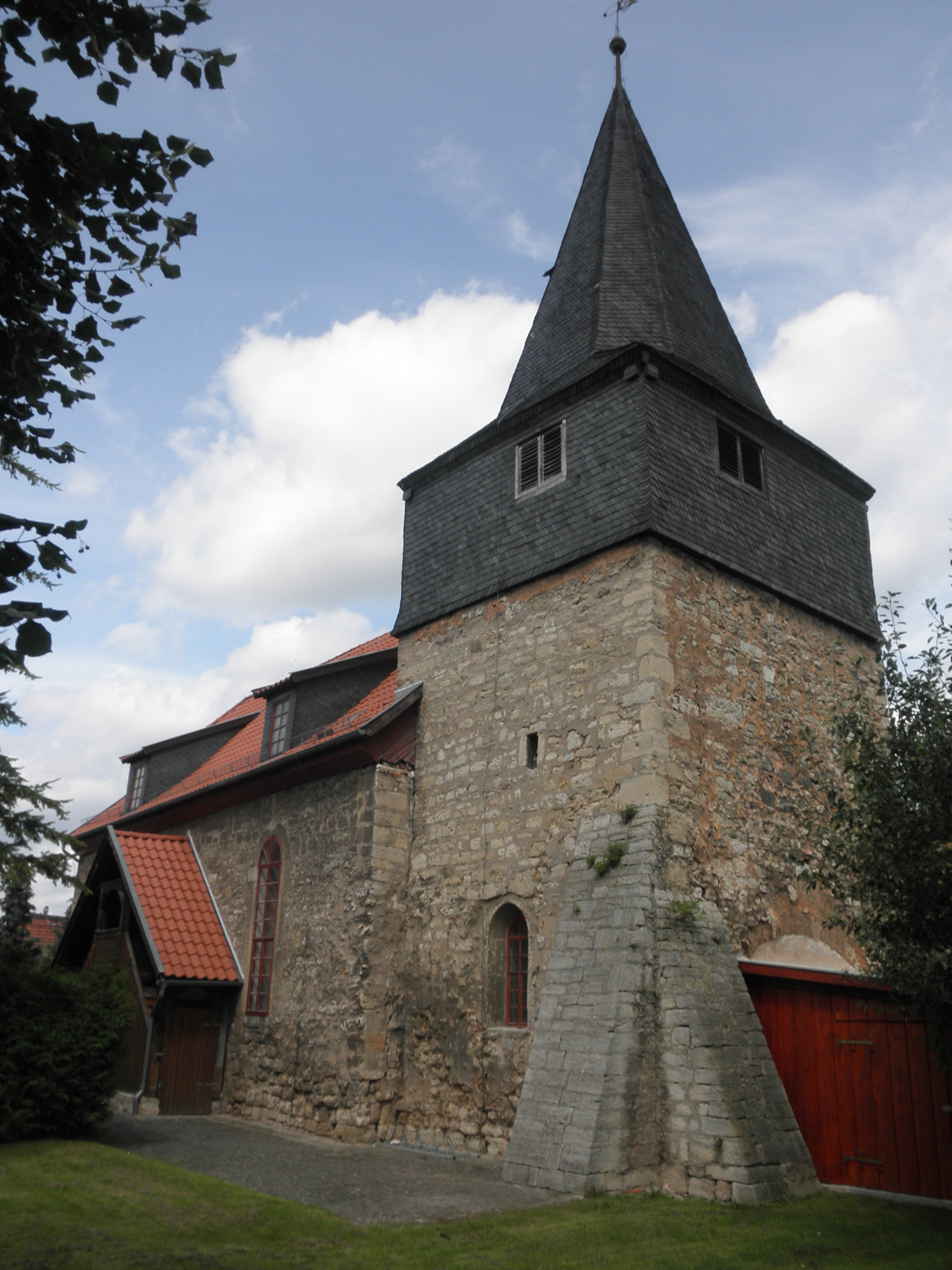 Church in Berka (Sondershausen) in Thuringia